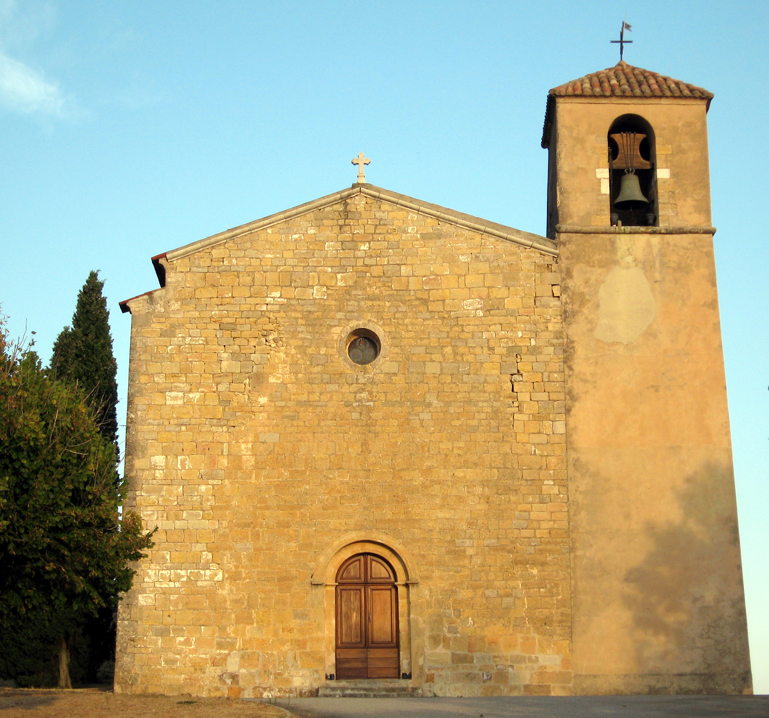 Tourtour Romanic Church St Denis